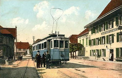 Railcar CFe 2/4 No. 2 tram Aarau-Schöftland (AS), built in 1901 by the Swiss Wagon Factory (SWS) and AG Brown, Boveri & Cie. in Baden (Aargau), taken around 1905 in the siding at the Angel Inn in Oberentfelden.